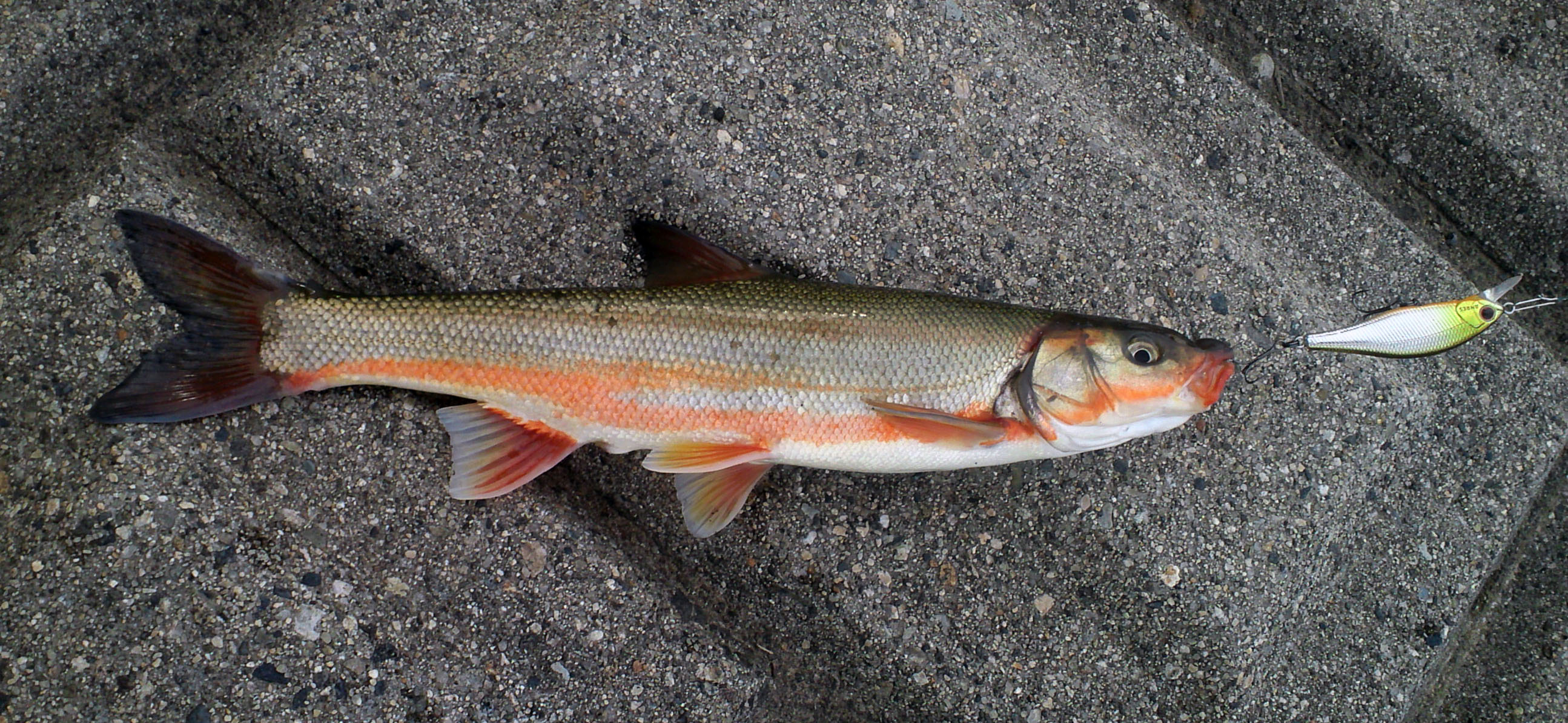 Tribolodon hakonensis